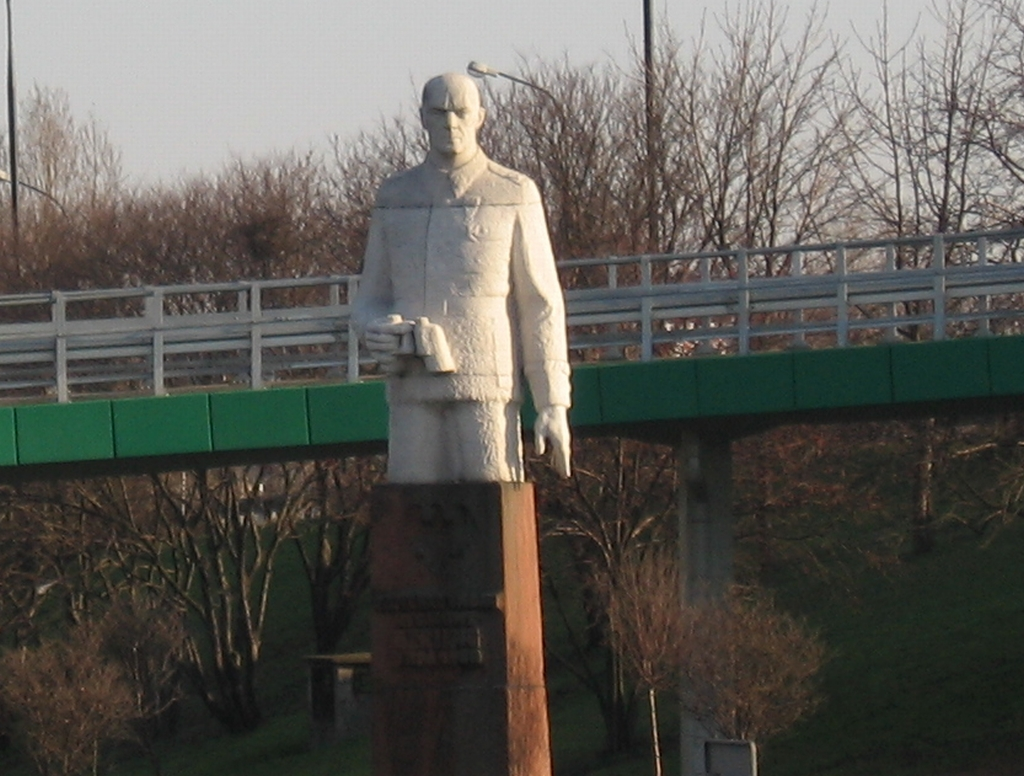 General Berling Monument, Warsaw, Poland